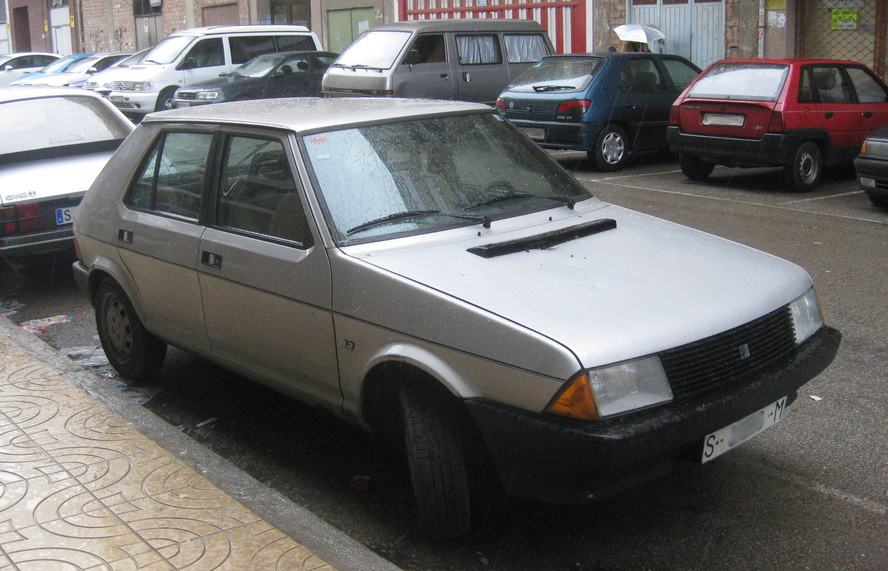 Nice Seat Ronda I spotted on a (as you can see) rainy day, they've been far more common in the past but they're kind of uncommon nowadays. They were known for being a bit unreliable and lacking of quality, by the time it came out Seat had nothing to do with Fiat already, so Fiat took Seat to court charging Seat after it had allegedly copied the design of the Fiat Ritmo, added a few changes and converted it into the Ronda. The thing is I kind of believe it because the resemblance between the Ronda and the Ritmo is quite big, BUT whether this was true or not, the thing is that Seat won the case in the end. 1985 plate from Santander (Cantabria)